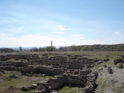 Karum Kanesh with Kültepe in the background.